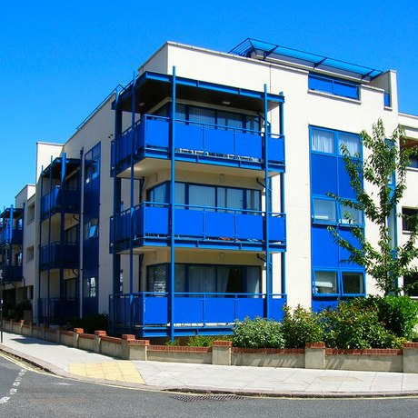 York Mansions, Temple Gardens, Montpelier, City of Brighton and Hove, England. Flats built in 2001 on the site of the former Windlesham House. Derivative (cropped version) of File:York_Mansions_-_geograph.org.uk_-_211794.jpg (photographed 30 July 2006 by Simon Carey)